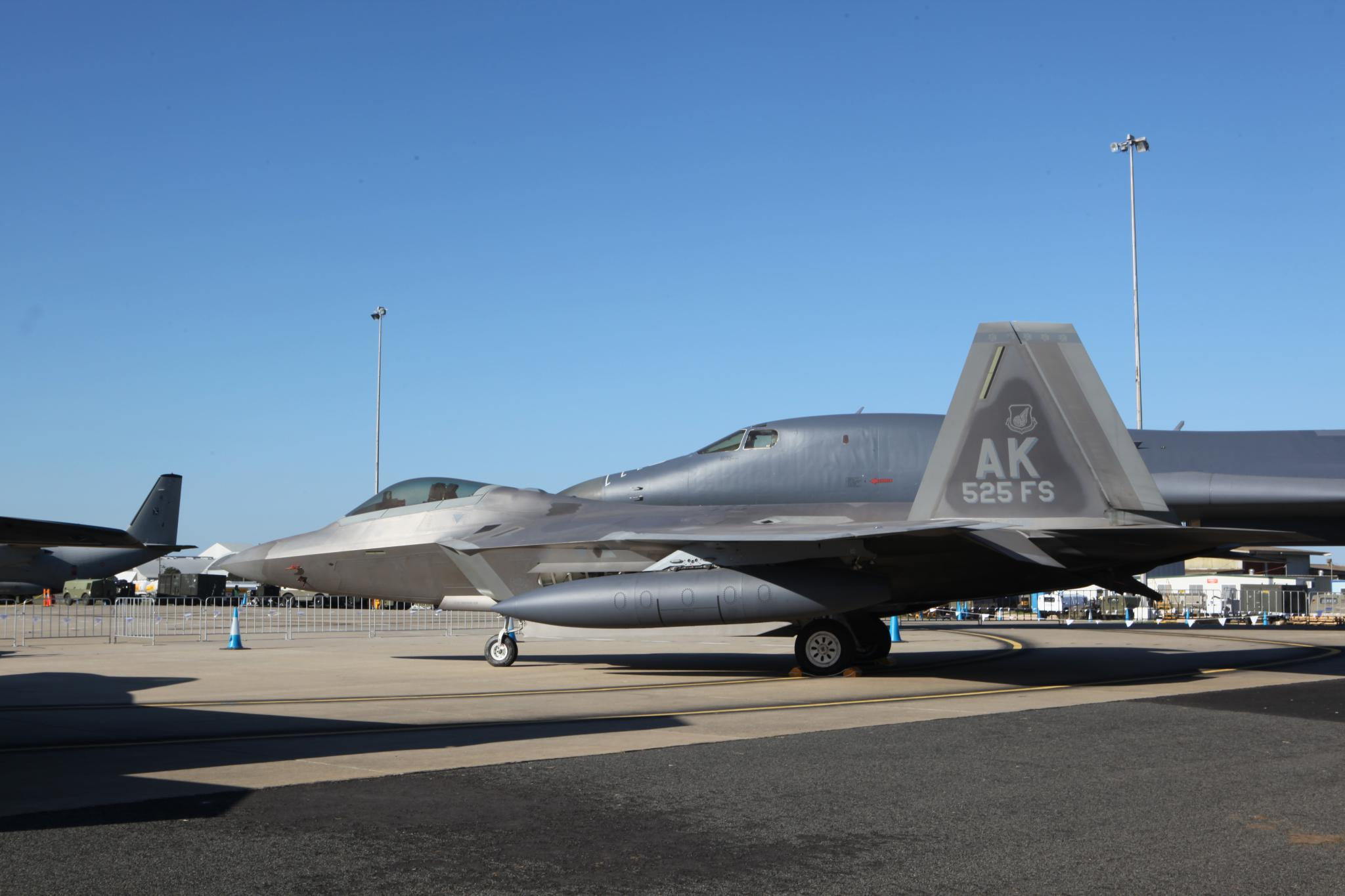 A Lockheed Martin F-22 Raptor and Rockwell B-1B Lancer on static display at the 2011 Australian International Airshow and Aerospace & Defence Exposition. This was the first time the Raptor was on public display in Australia.